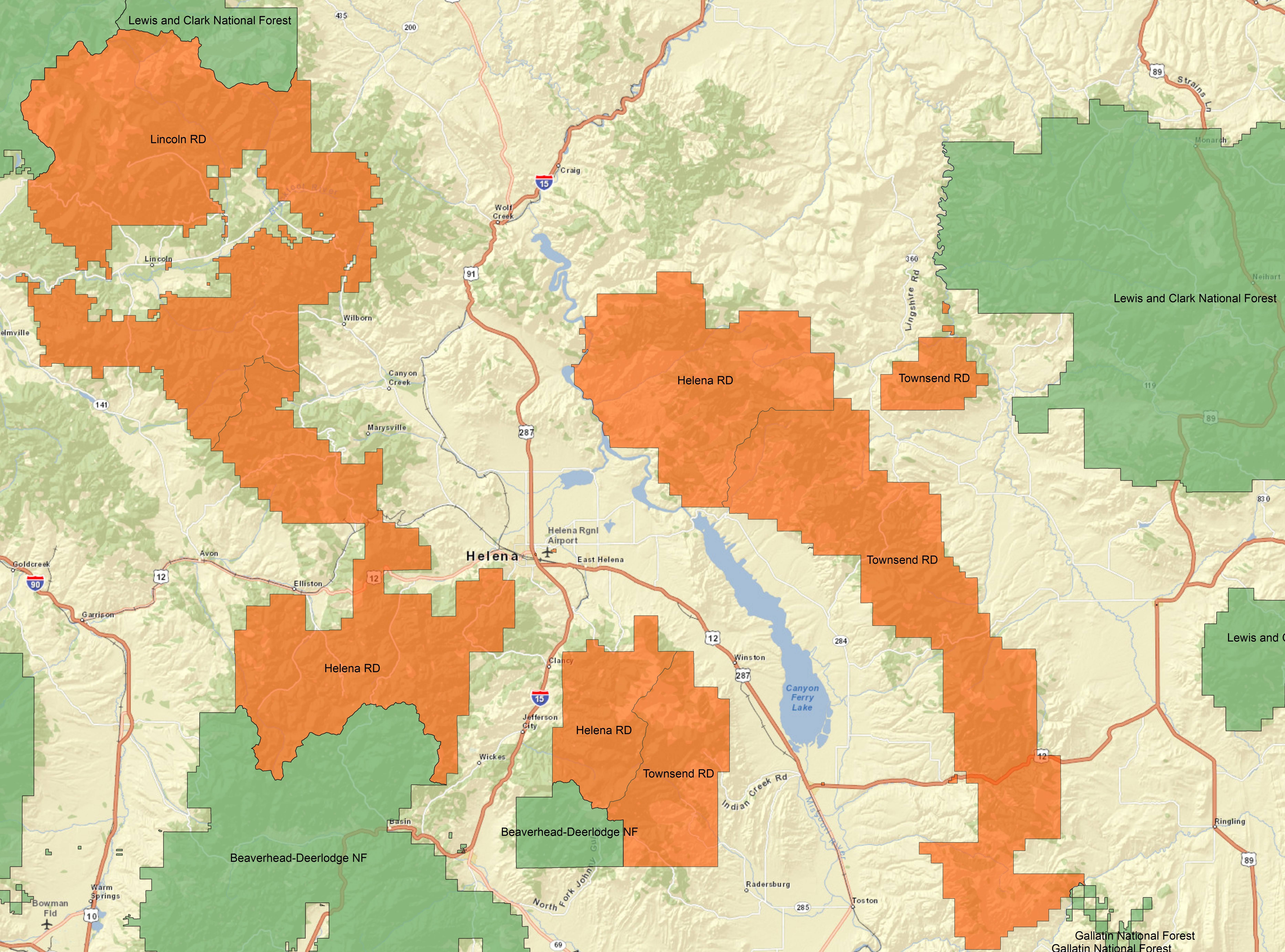 Map of Helena National Forest — located in Lewis and Clark County, Montana. The Helena, Lincoln, and Townsend Ranger Districts of the national forest are in orange. Surrounding national forests, including Beaverhead-Deerlodge National Forest and Lewis and Clark National Forest are in green. Credits This map was made using ARCMAP 10.1, and all data are in the public domain. Forest Service boundary data are from the US Forest Service FSGeodata Clearinghouse